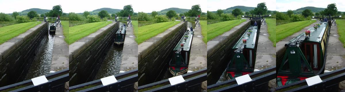 Photo sequence showing the operation of a canal lock